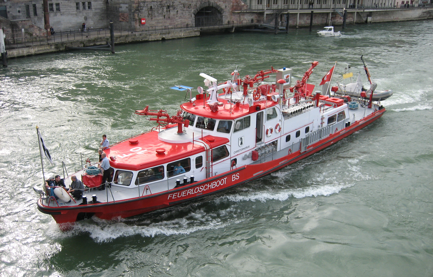 Fire boat on the Rhein in Basel Swizerland